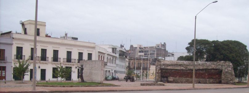 Plazoleta de Las Bóvedas, Ciudad Vieja, Montevideo, Uruguay. On the left: monument to Hernandarias.